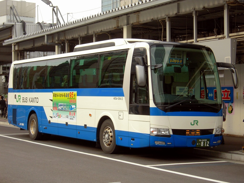 JR bus Kanto Highwaybus "Boso-nanahana"(Tokyo-Tateyama,Shirahama)